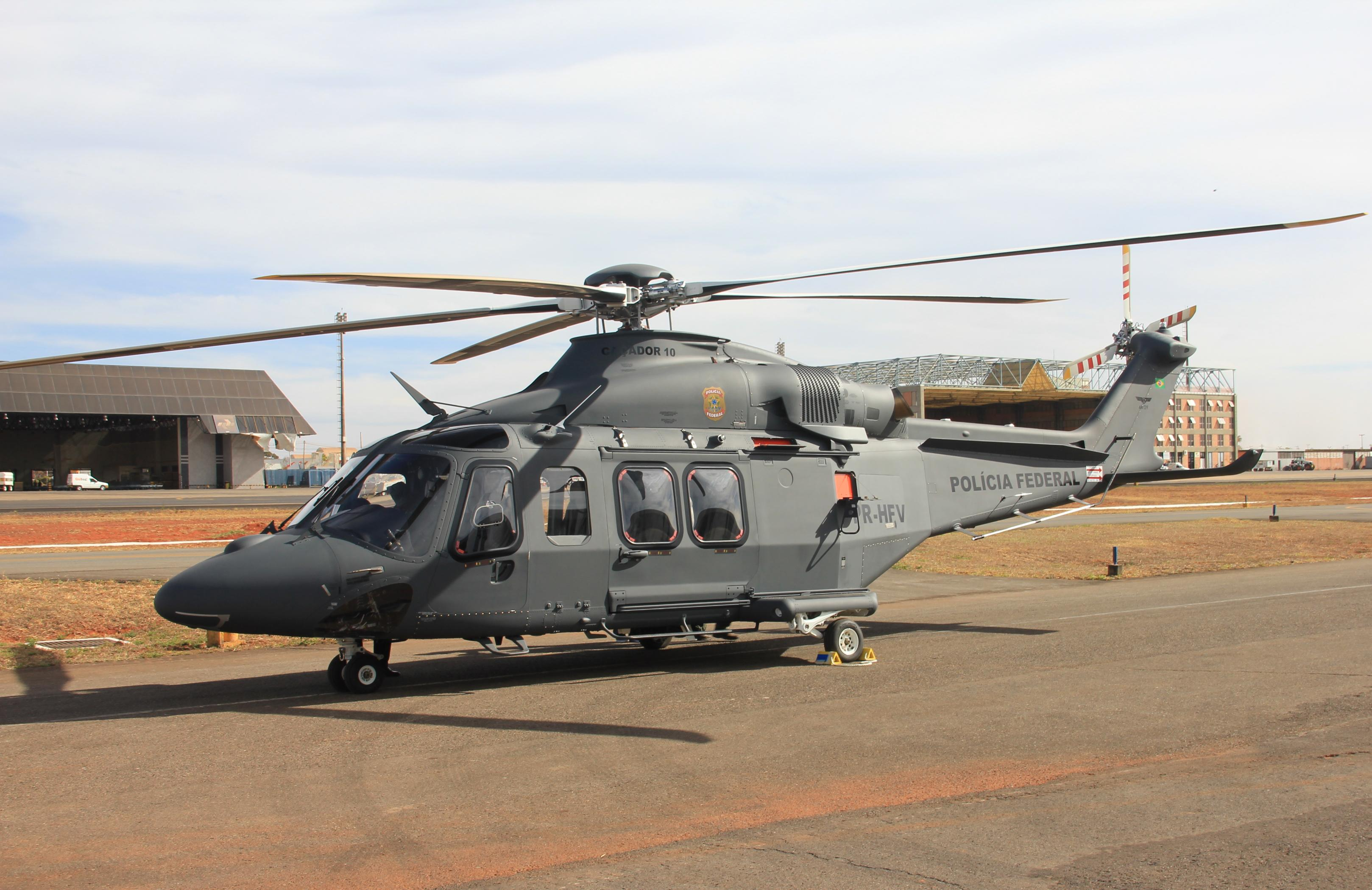 Augusta-Westland AW-139, da Polícia Federal do Brasil